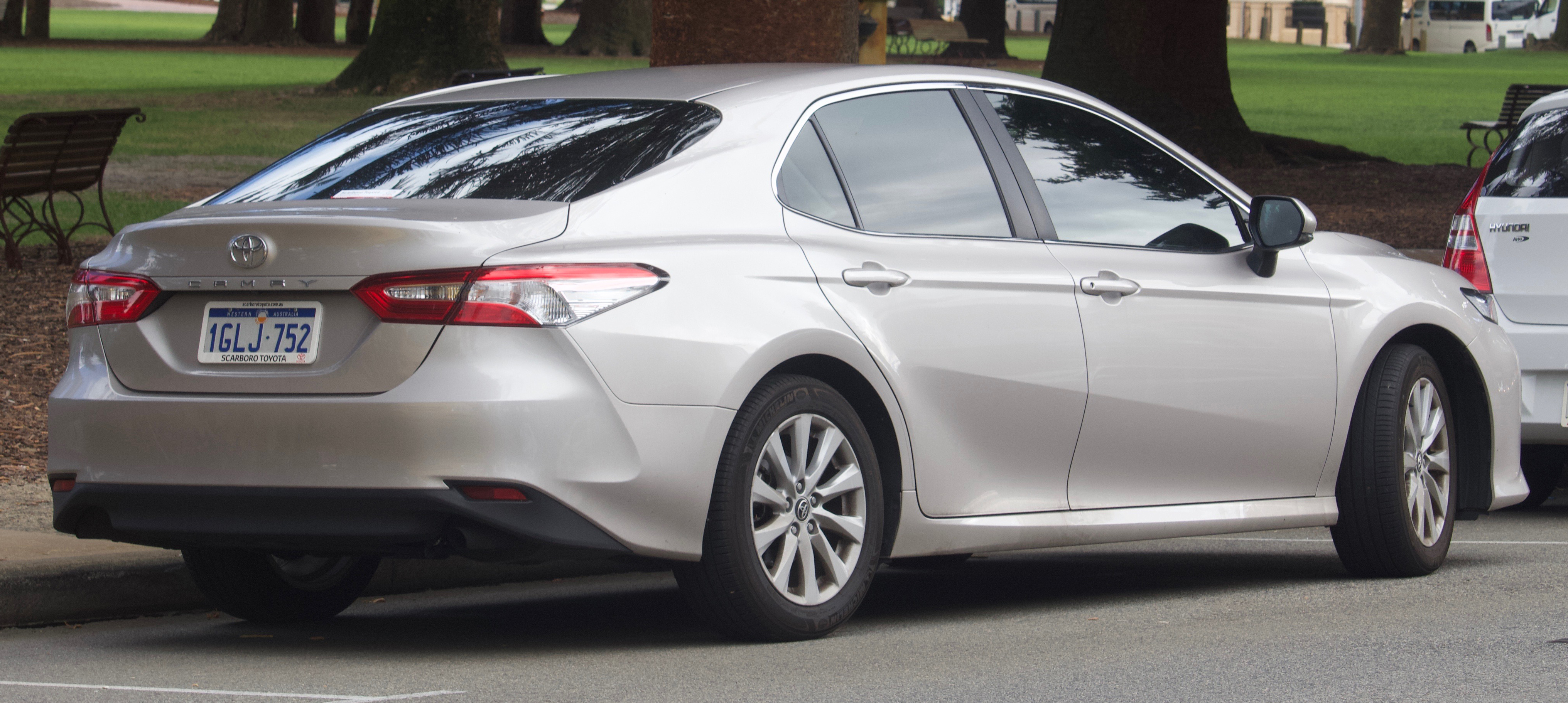 2018 Toyota Camry (ASV70R) Ascent sedan. Photographed in Fremantle, Western Australia, Australia.